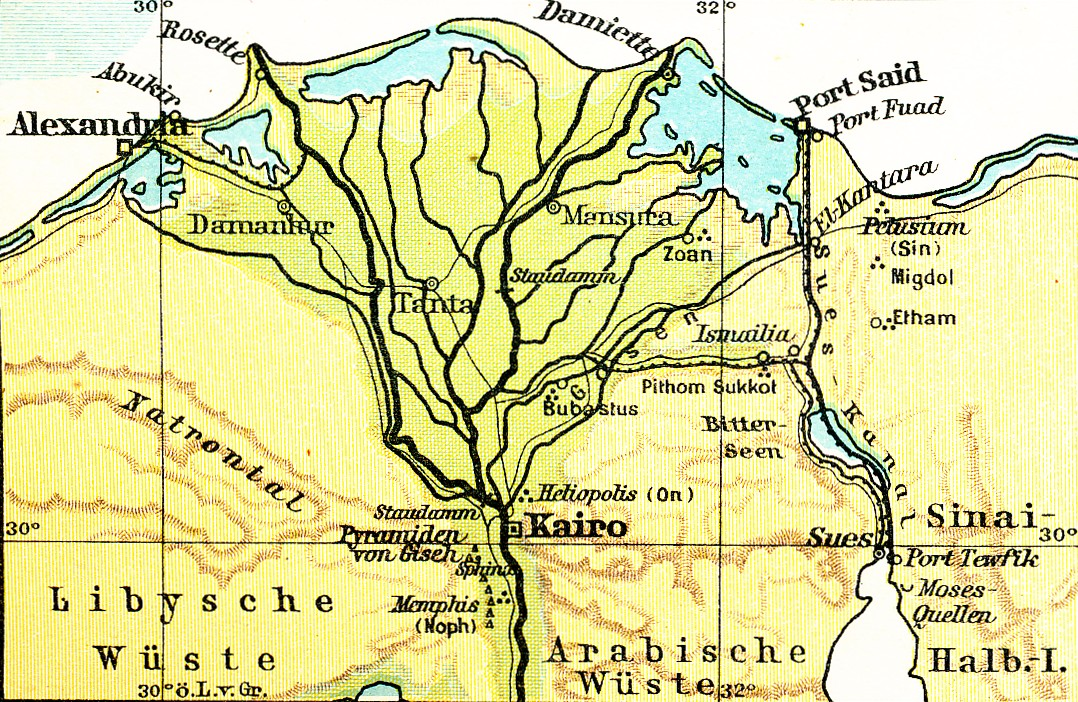 This is a part of an old atlas. It does not necessarily represent the current situation.